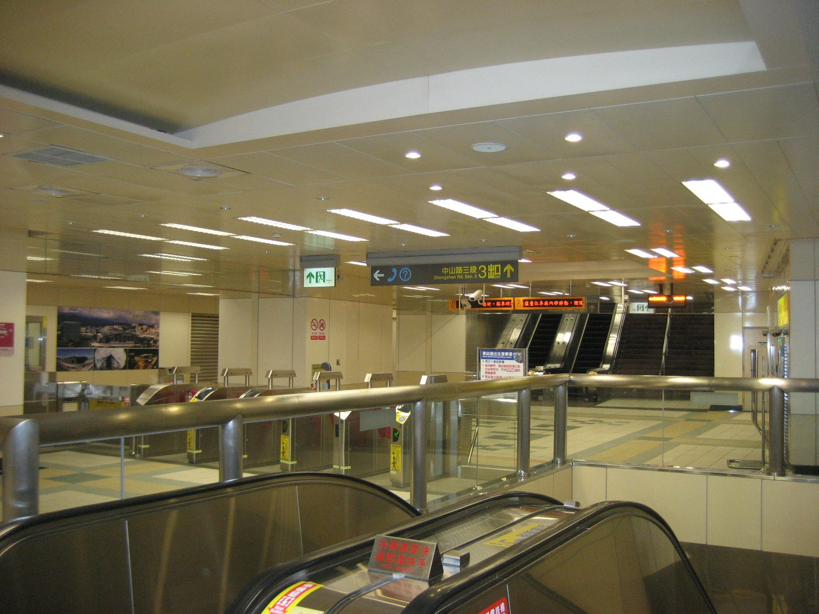 Huilong Station Turnstile